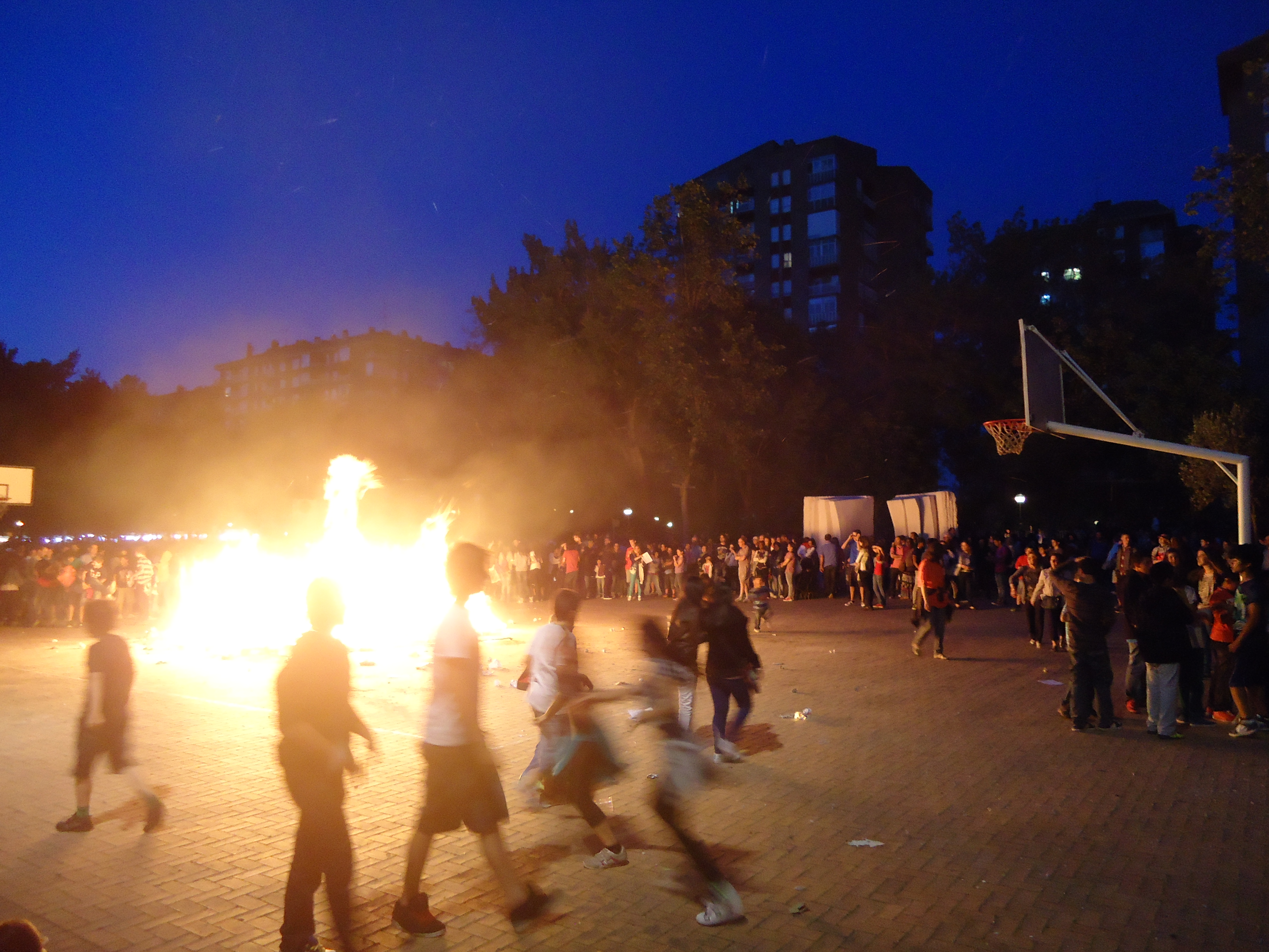 Solstice fire (Saint John fire) in Judimendi (Vitoria-Gasteiz)